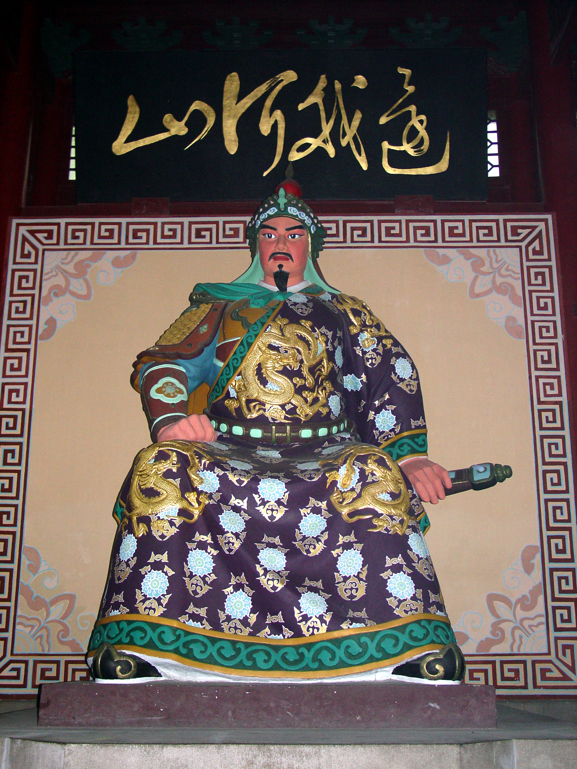 Statue Of Yue Fei. Yue Fei Temple, Hangzhou This very large and appropriately heroic modern statue of Yue Fei is located inside the main temple building.